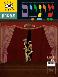 תמונת השער של גיליון 'עיניים' בנושא תאטרון